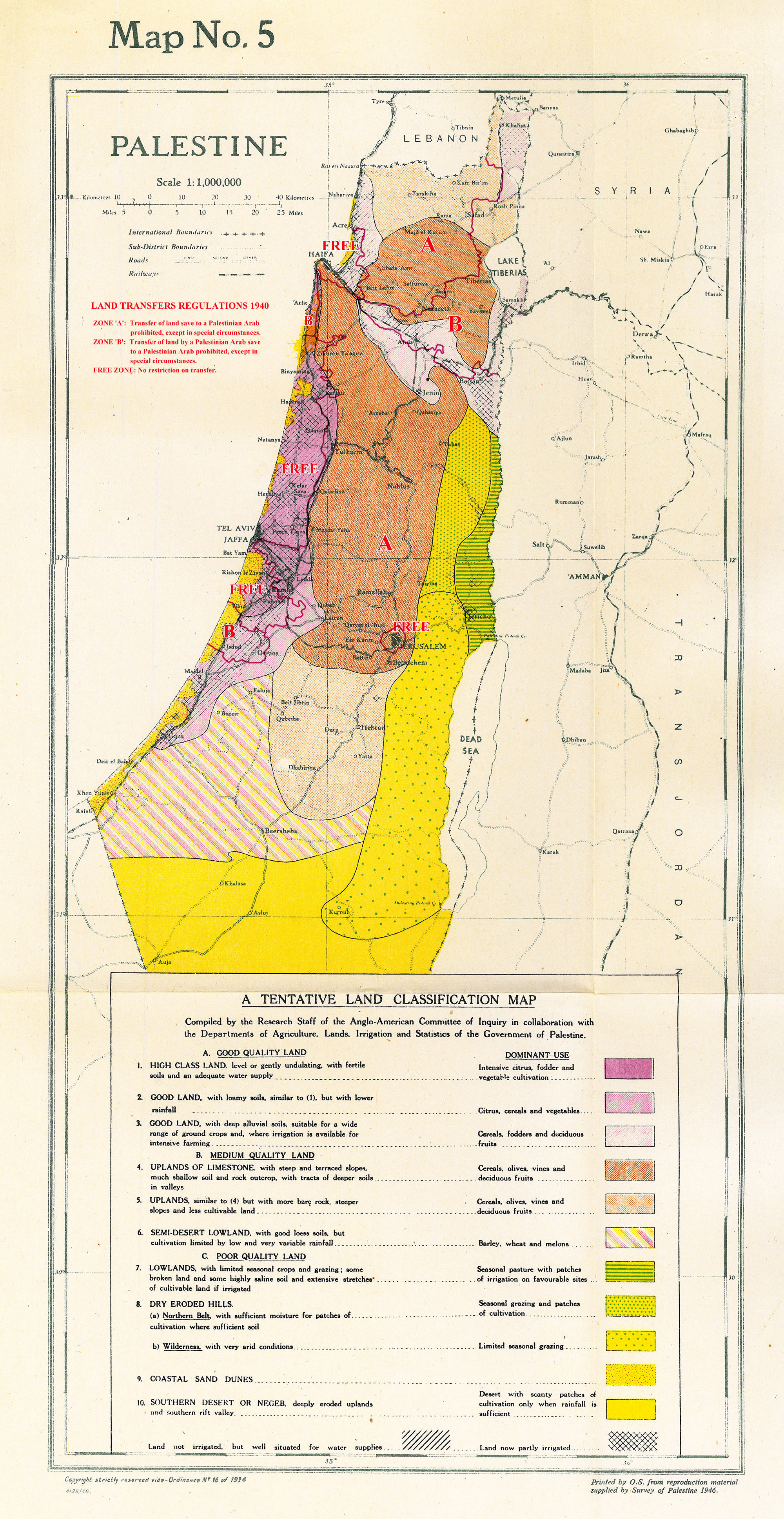 Map 5. Land Classification map of Palestine. Notated with boundaries of land transfer regions as prescribed in 1940, taken from Map 4.